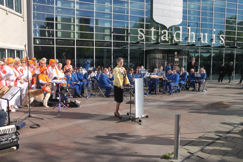 Mayor Salet giving a speech during the opening of Koninginnedag 2012 in Spijkenisse